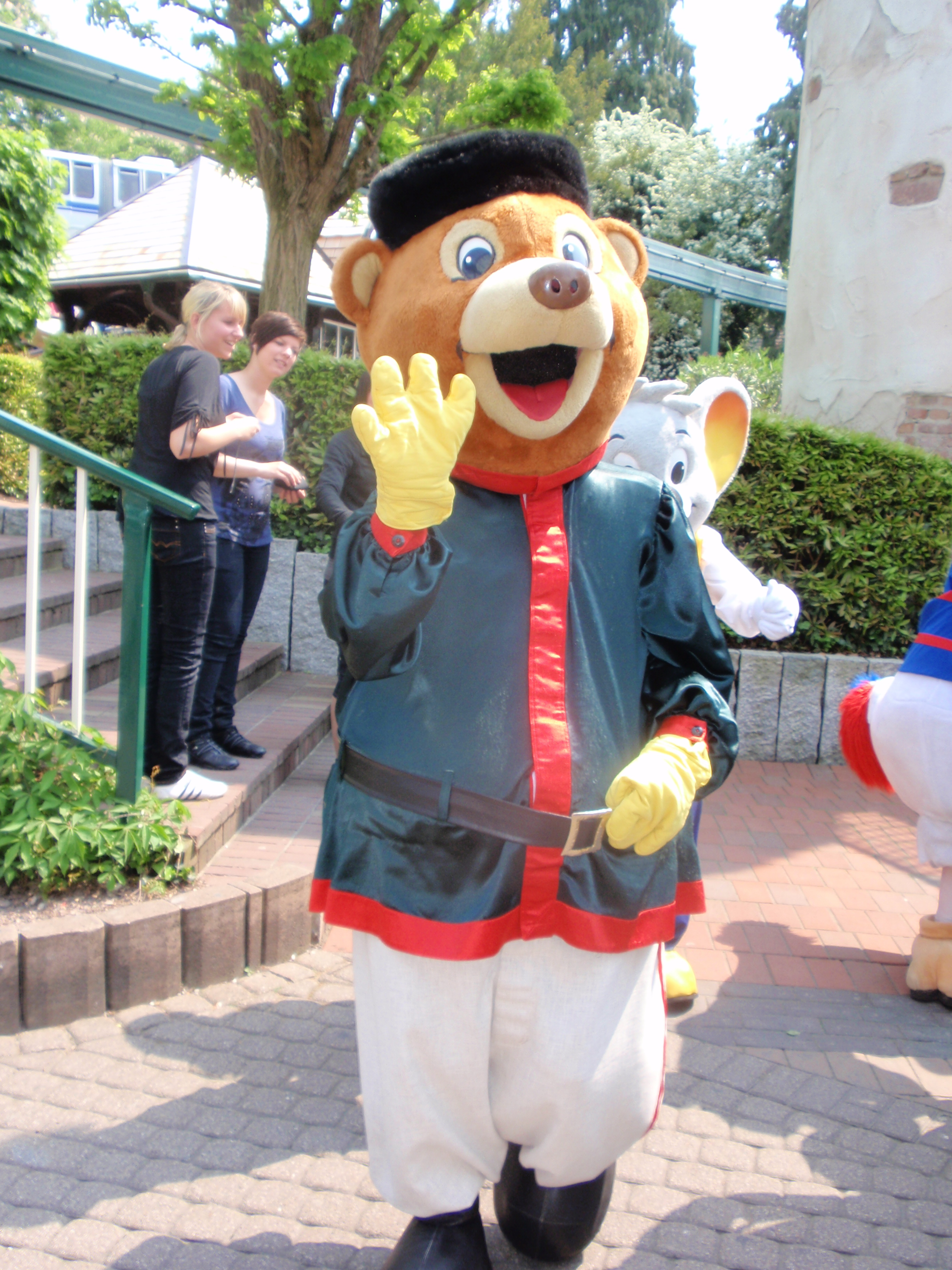 the russian bear "Misha" in the Europa-Park Rust.